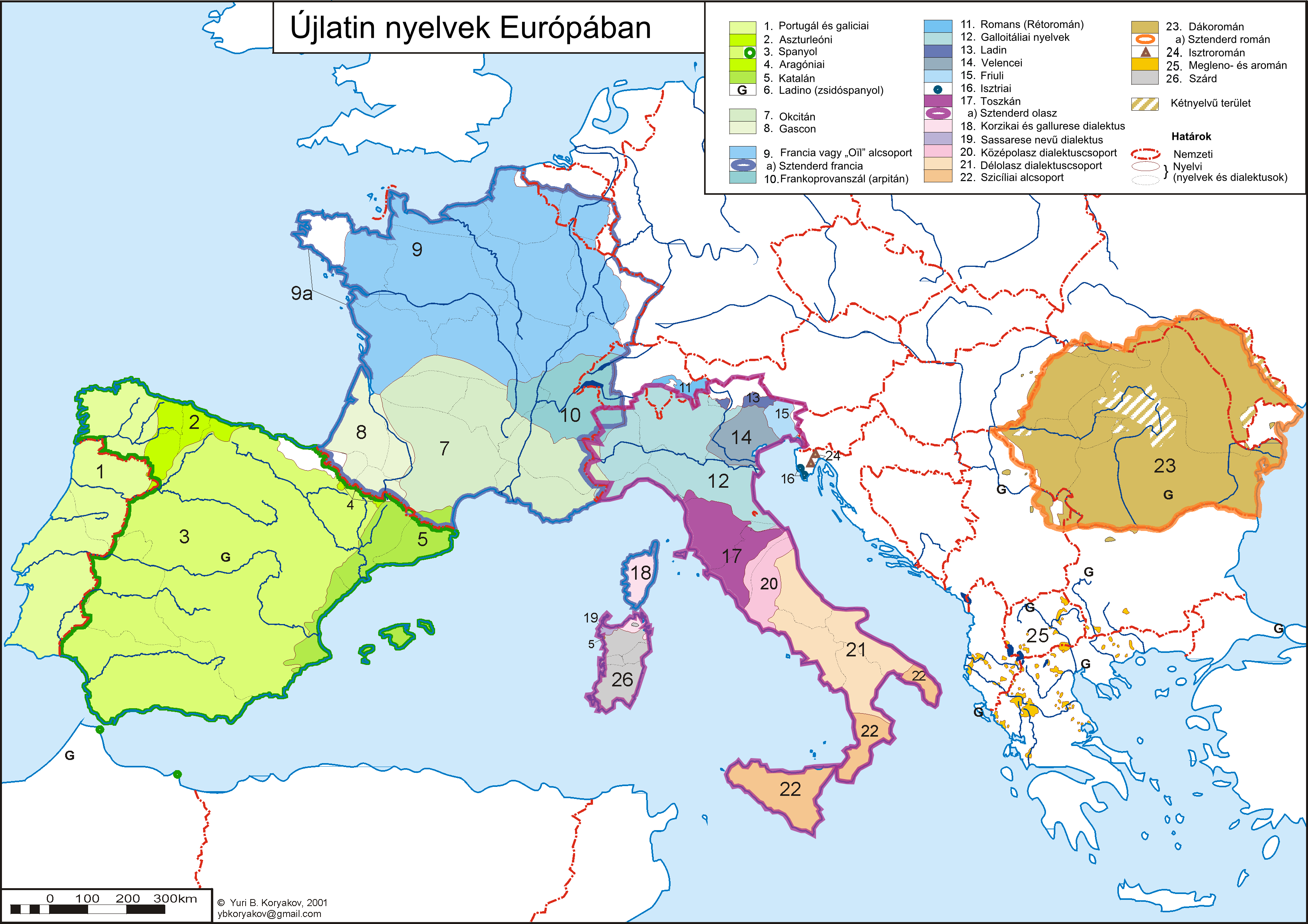 Romance languages in Europe in 20 c. AD. Hungarian version.